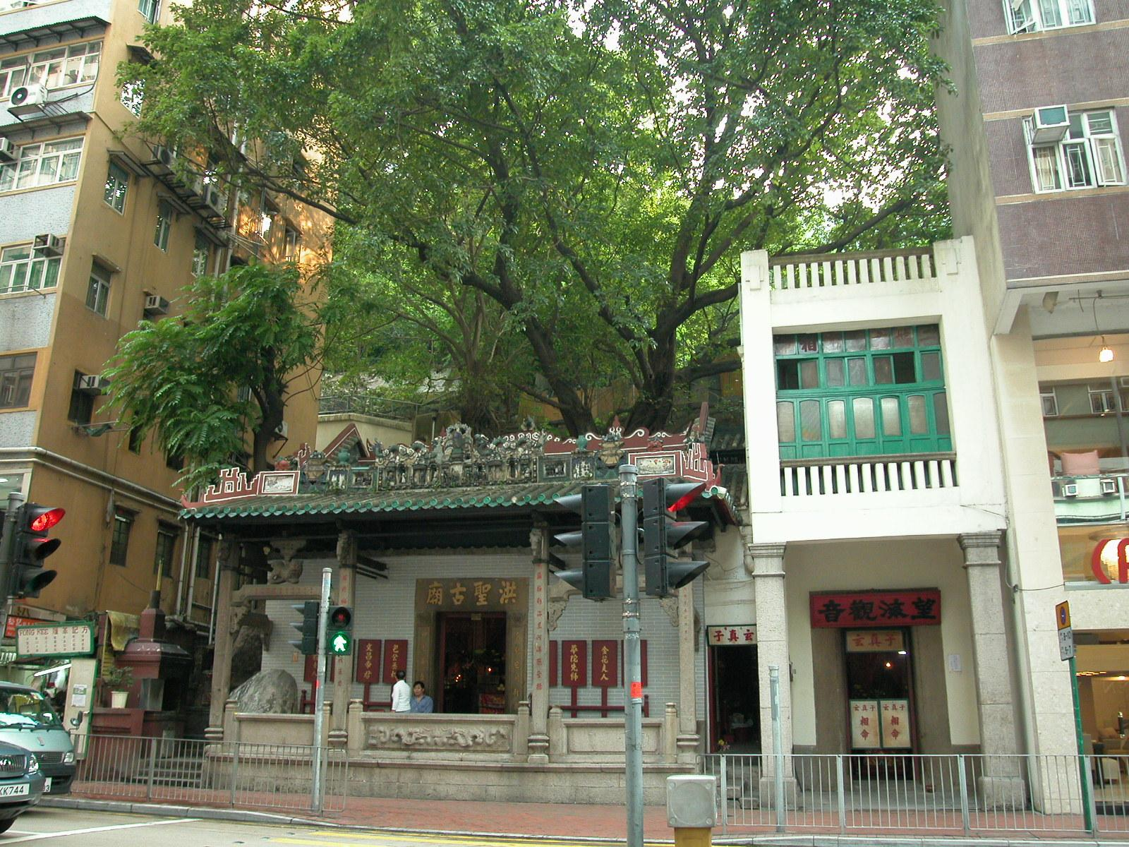 Hung Shing Temple, Queen's Road East, Wan Chai, Hong Kong. The white building on the right houses a Kwun Yum temple, which was added in 1867.